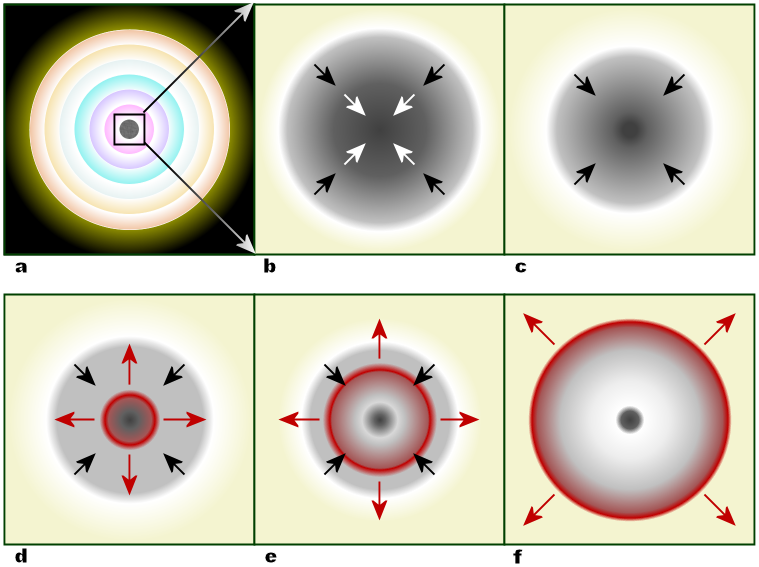 Simplified core collapse scenario: (a) A massive, evolved star has onion-layered shells of elements undergoing fusion. An inert iron core is formed from the fusion of Silicon in the inner-most shell. (b) This iron core reaches Chandrasekhar-mass and starts to collapse, with the outer core (black arrows) moving at supersonic velocity (shocked) while the denser inner core (white arrows) travel sub-sonically; (c) The inner core compresses into neutrons and the gravitational energy is converted into neutrinos. (d) The infalling material bounces off the nucleus and forms an outward-propagating shock wave (red). (e) The shock begins to stall as nuclear processes drain energy away, but it is re-invigorated by interaction with neutrinos. (f) The material outside the inner core is ejected, leaving behind only a degenerate remnant.